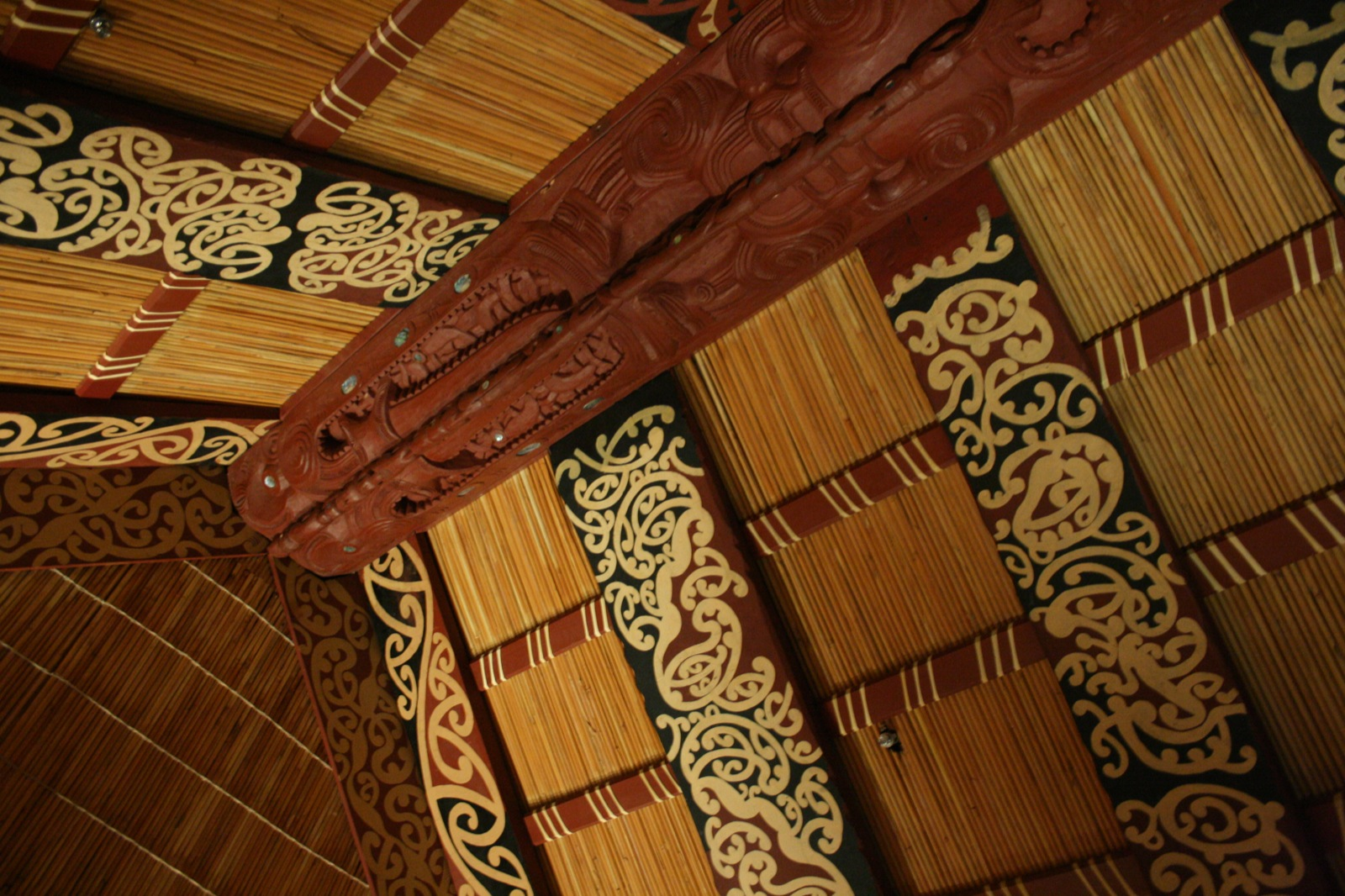 Ceiling of a Maori meeting house, with a carved tahuhu or ridgepole, and rafters painted in curvy kowhaiwhai patterns. Te Papa, Wellington, New Zealand.